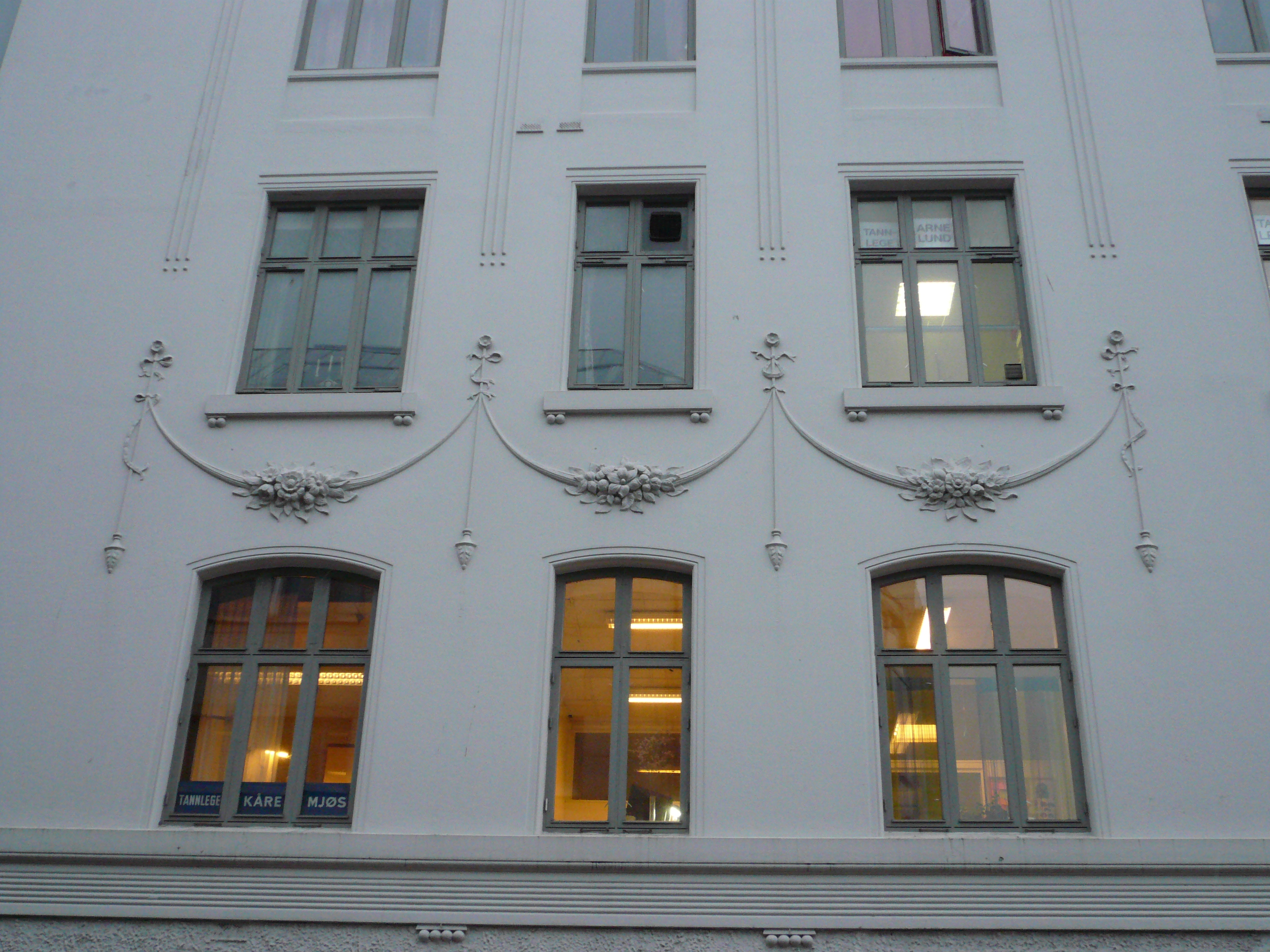 Garland